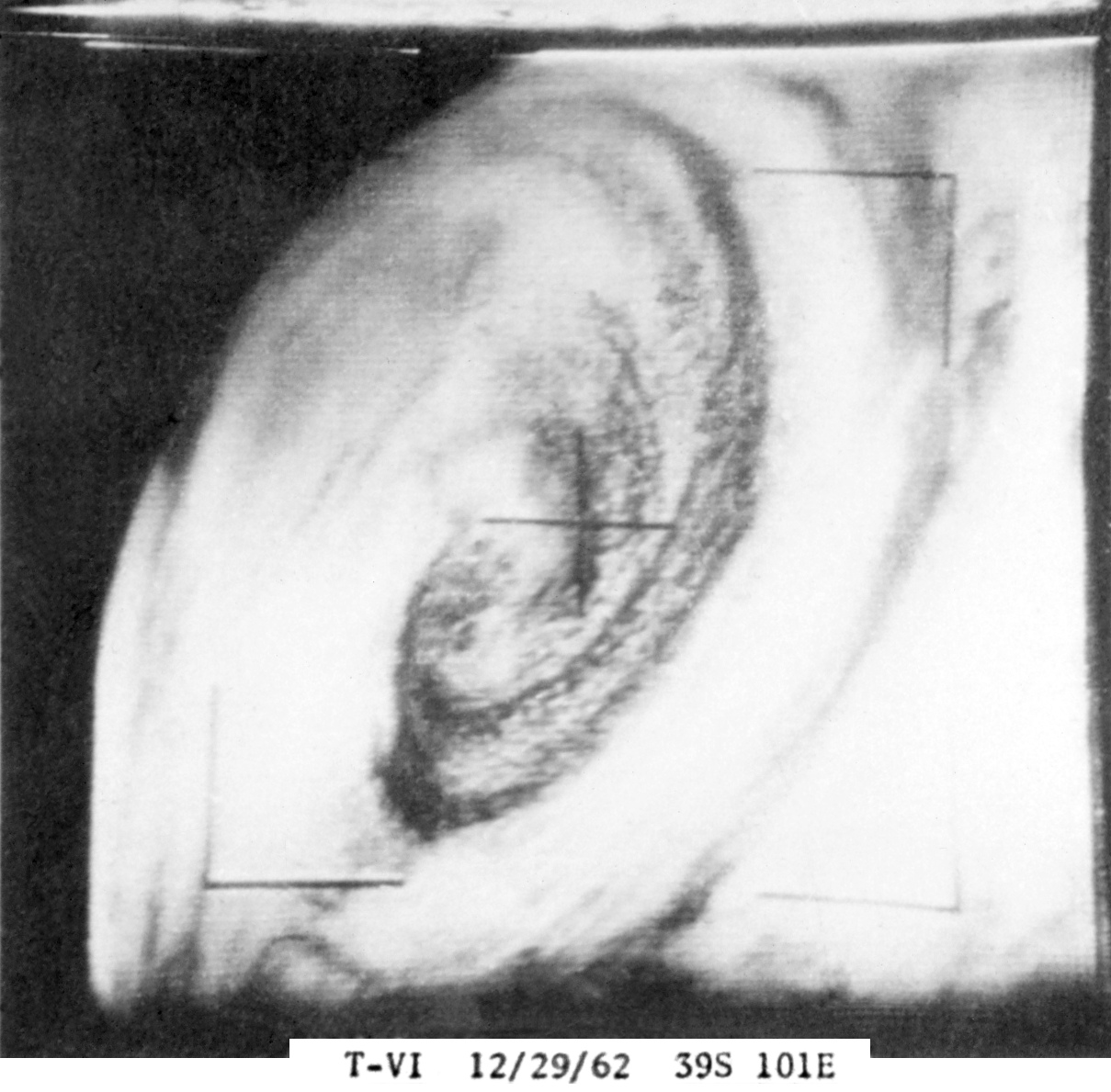 TIROS 6 image of a large southern hemisphere extratropical cyclone centered at 39 S, 101E in the Indian Ocean (Dec. 29, 1962)